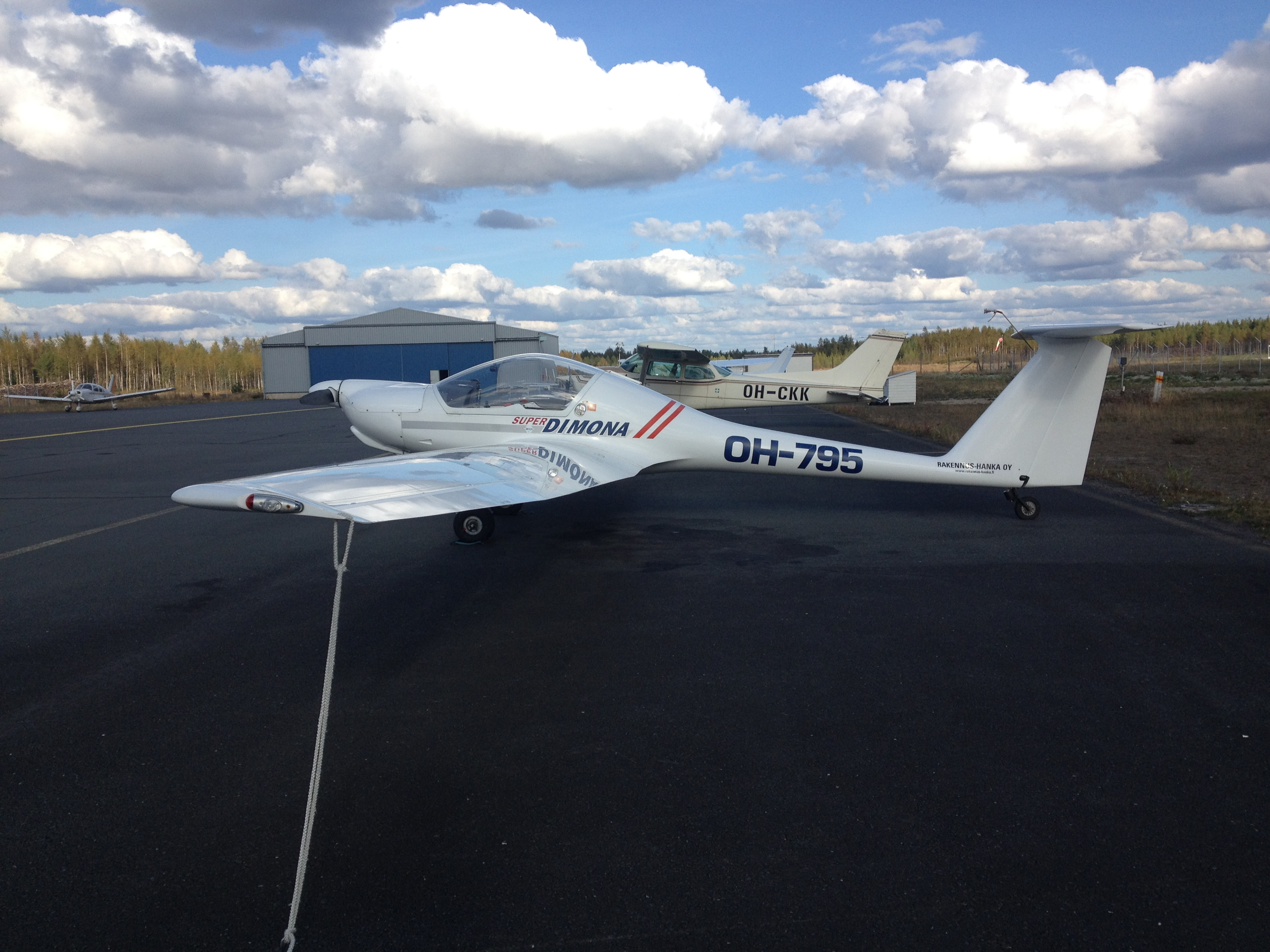 aircraft of Oulun Moottoriliitäjät ry